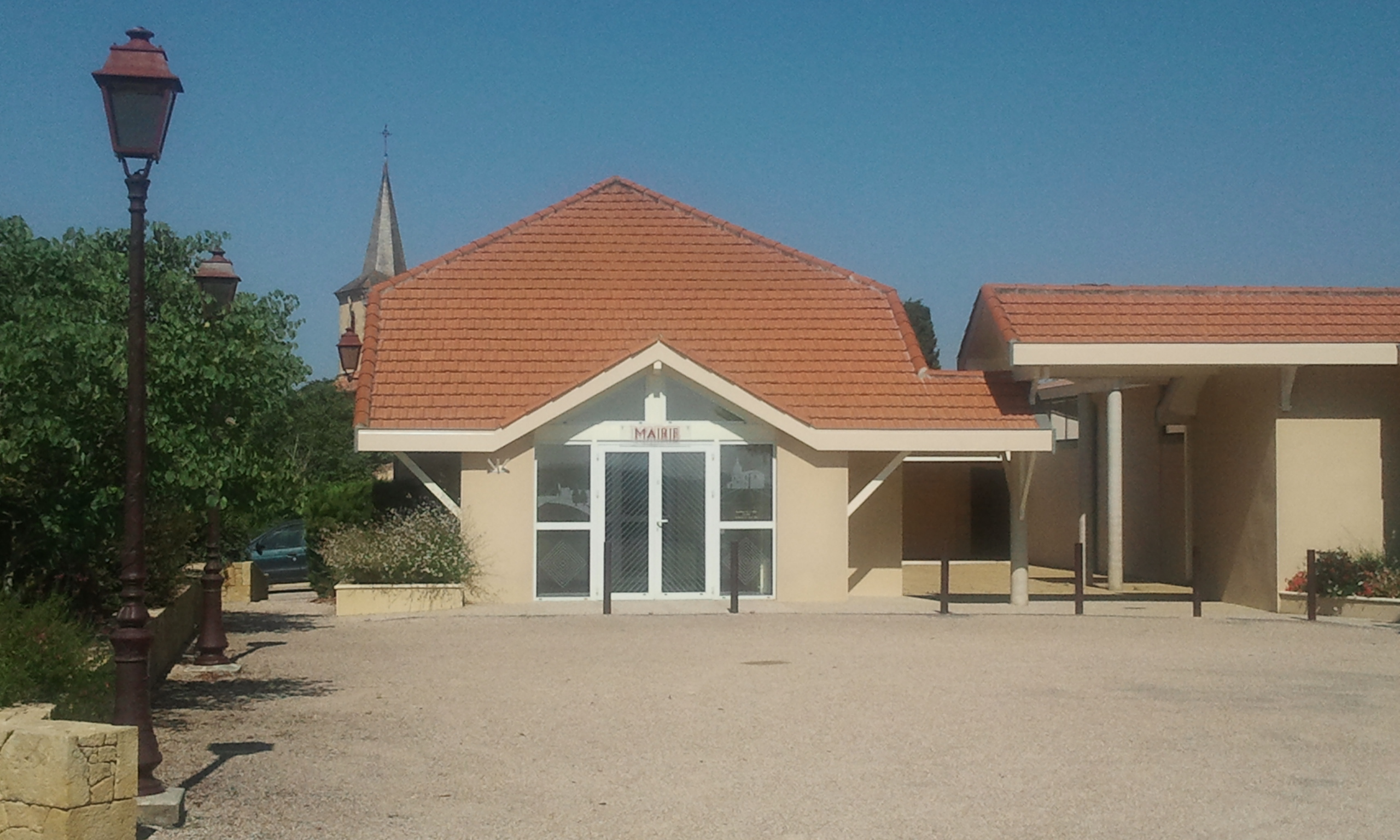 Town hall of Durban